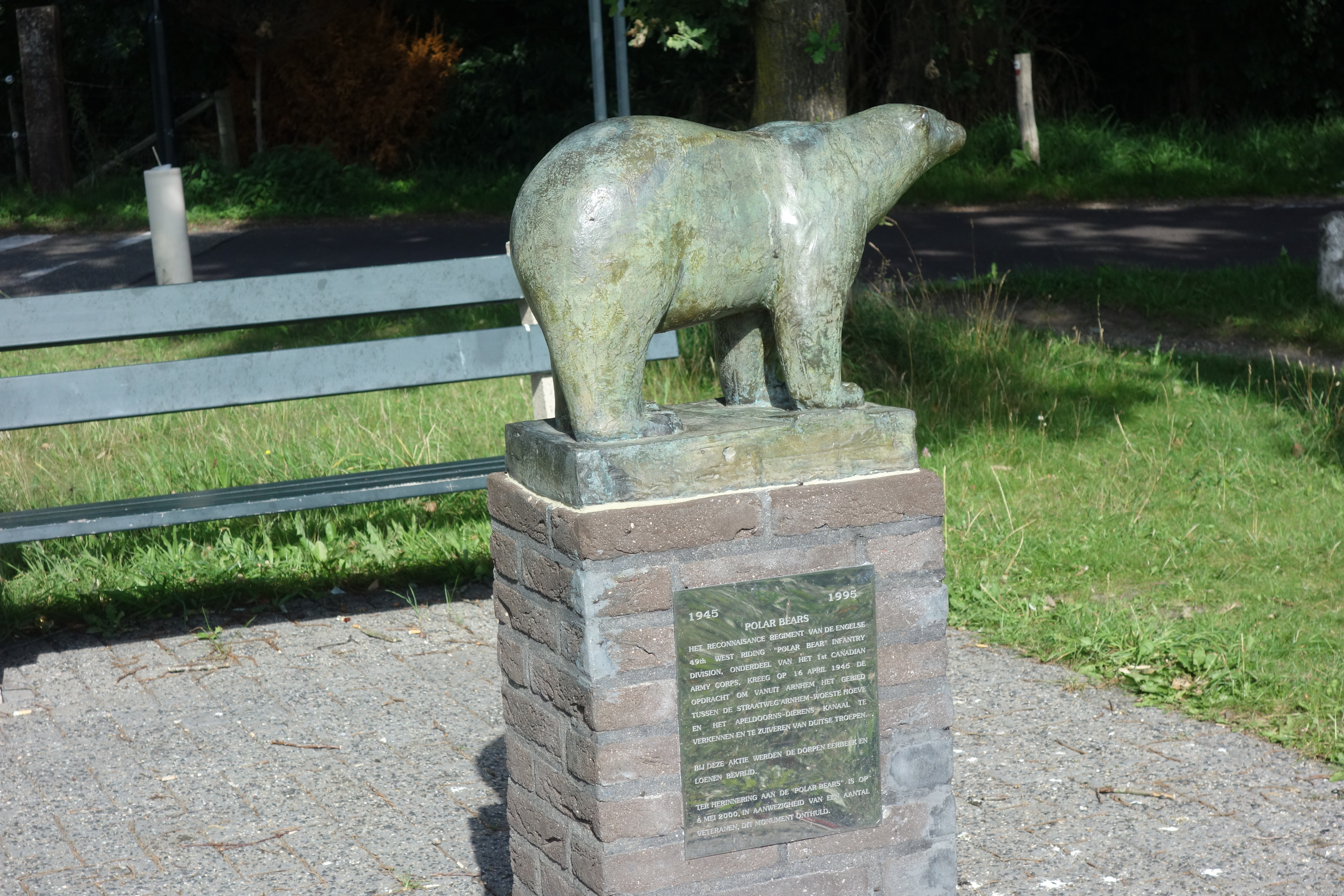 Monument in remembrance of the 49th West Riding "Polar Bear" Infantry Division, part of the 1st Canadian Army Corps, liberated the Dutch villages Eerbeek and Loenen on 16 April 1945.Monument is located at the Eerbeekseweg in Loenen.